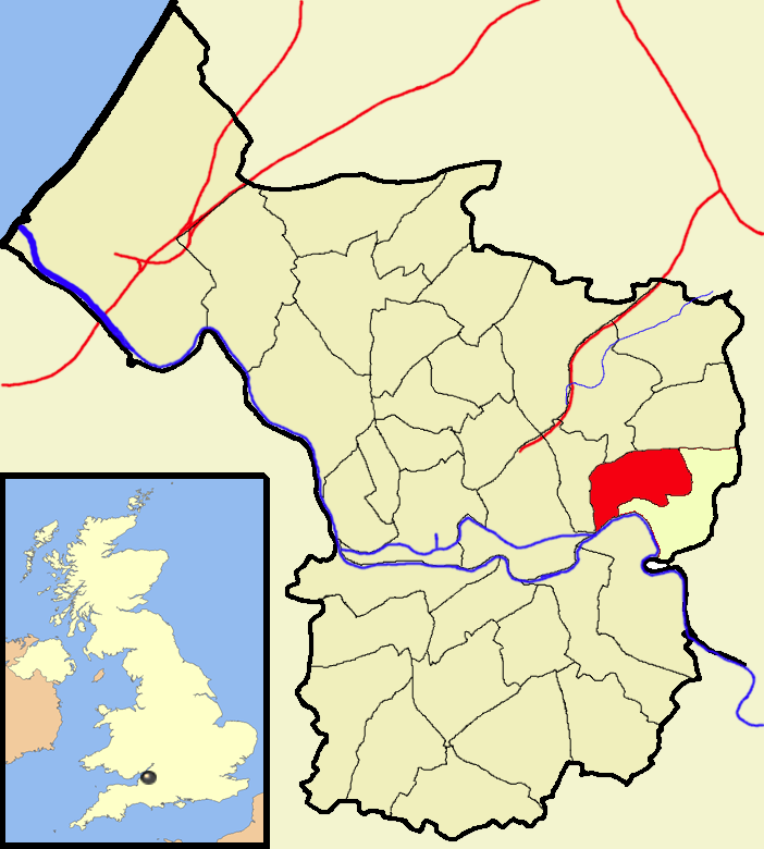 Map of St Geore West I made using the image at